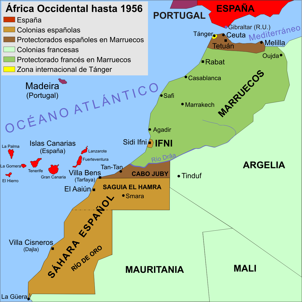 Territories, colonies and protectorates in West Africa until 1956.